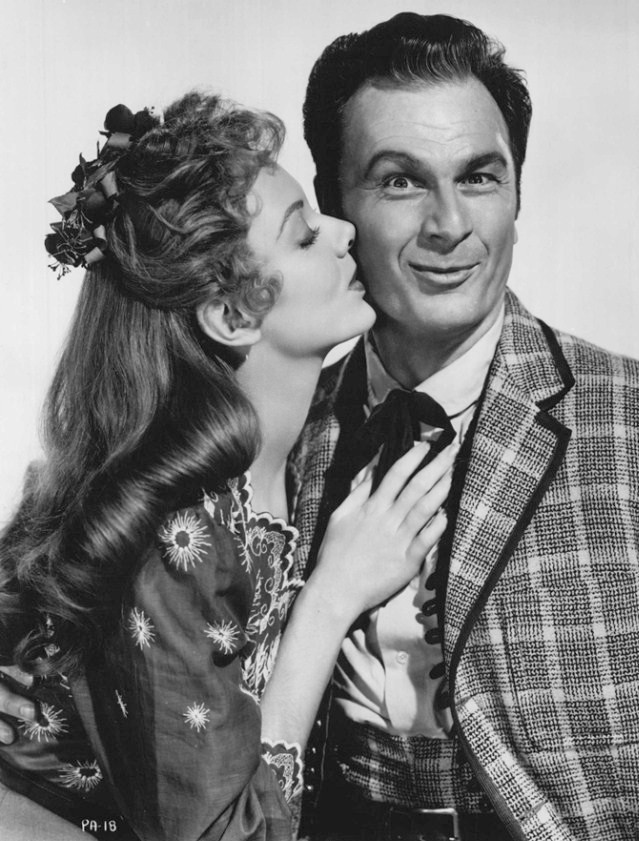 Barbara Lawrence and Eddie Albert in Oklahoma! (1955) - publicity still (cropped : see source).